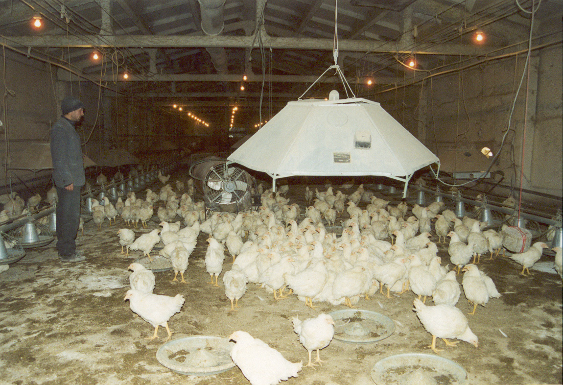 Getamej Chicken Farm.